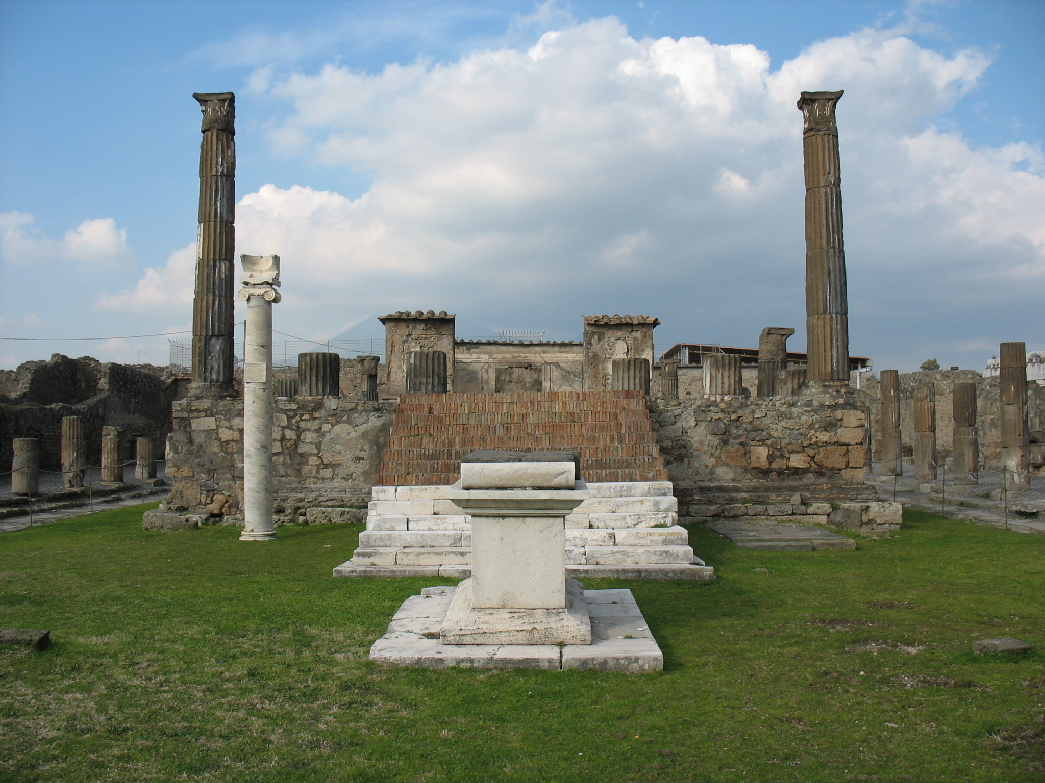 A photograph of the Temple of Apollo at Pompeii, taken by myself on January 16, 2006.